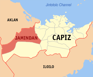 Map of Capiz showing the location of Jamindan